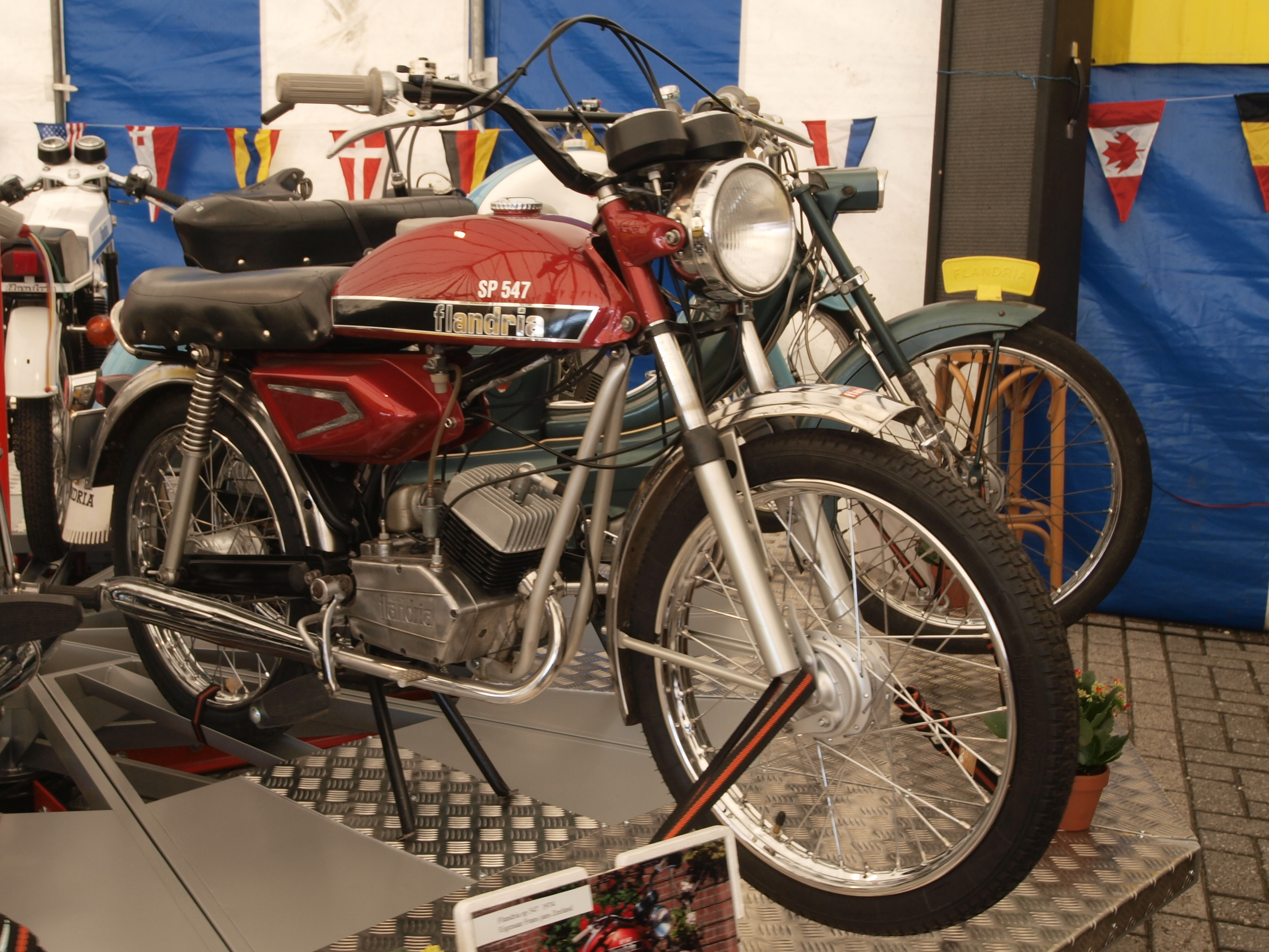 Photographed at the Classic Vehicle meeting 'Klassiek Mechaniek Zeeland 2011', The Netherlands.